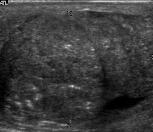 Scrotal ultrasonography of embryonal cell carcinoma.